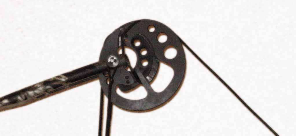 Browning Compound Bow Cam Closeup.